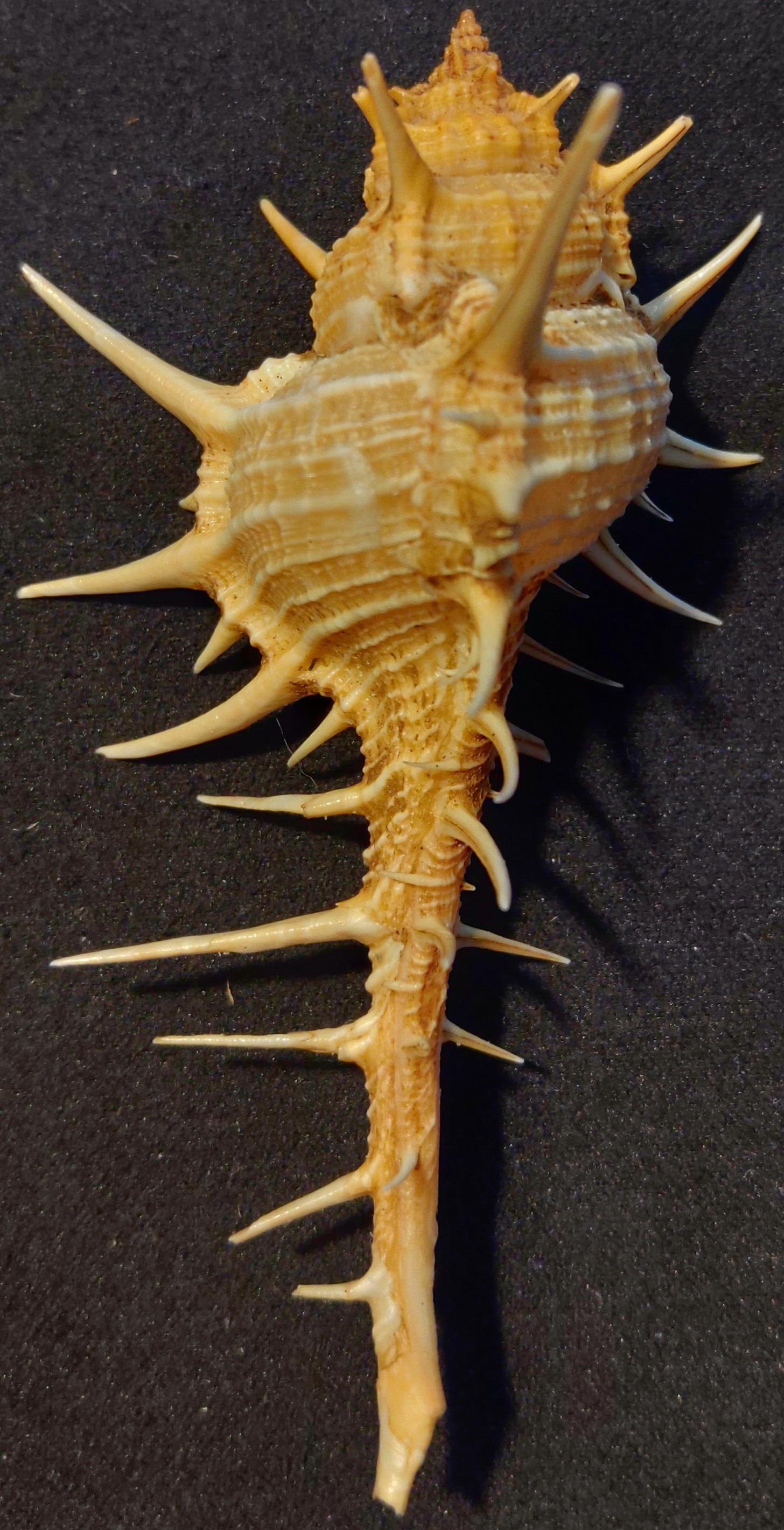 Murex Africanus Back